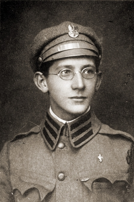 Wacław Lipiński (1896-1946), Polish historian, military officer and resistance fighter